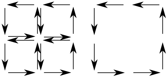 Illustrates the Stokes's theorem.